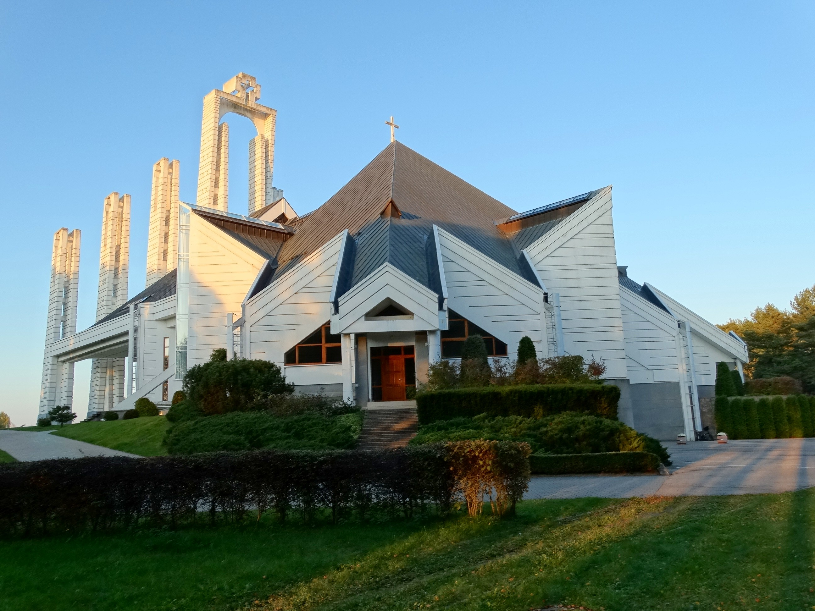 Roman Catholic Church of Blessed Virgin Mary, Queen of Martyrs, Elektrėnai, Lithuania